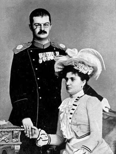 Aleksandar Obrenovic (1876-1903), King of Serbia